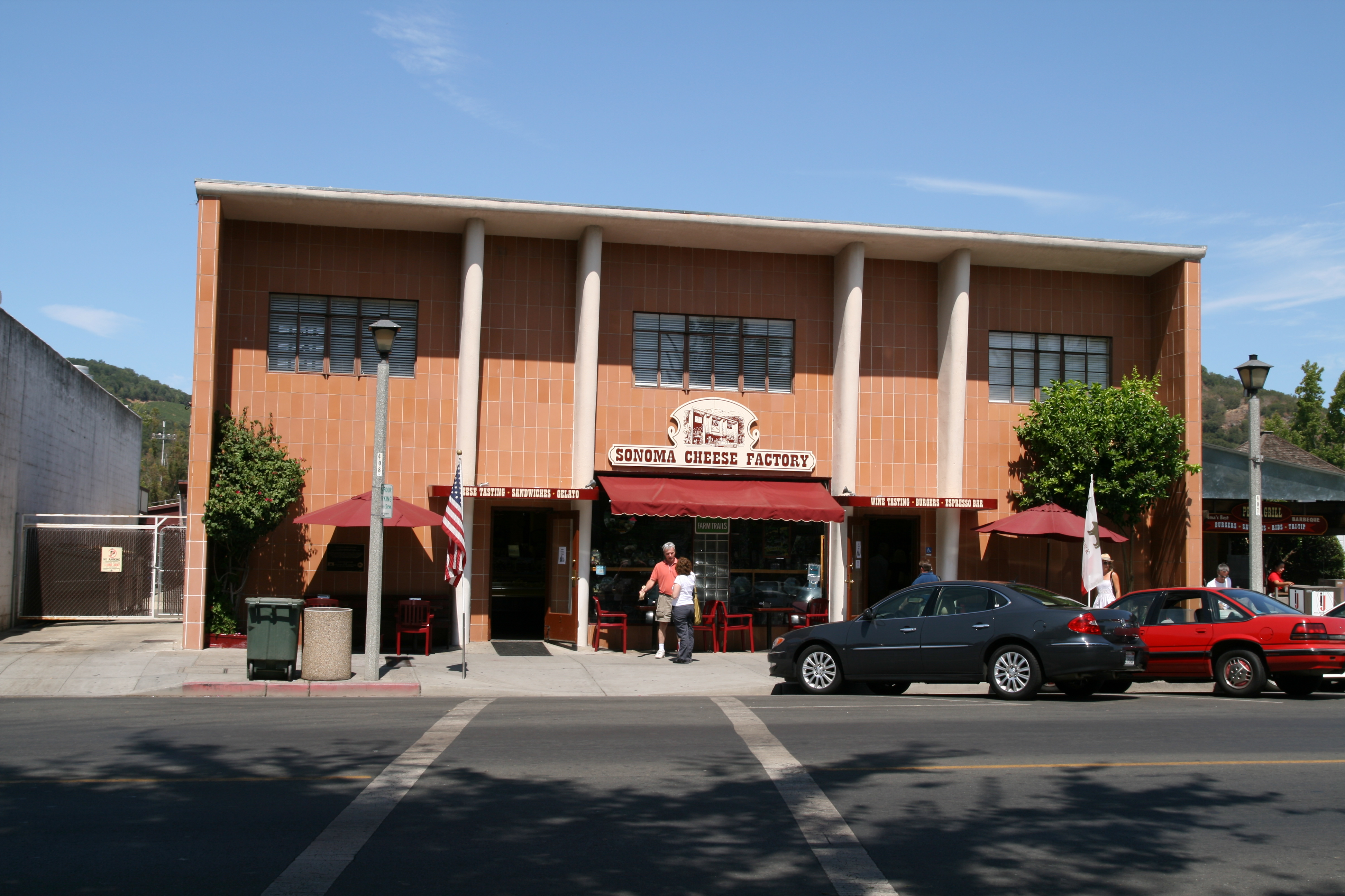 The Sonoma Cheese Factory outlet along the Sonoma Plaza.